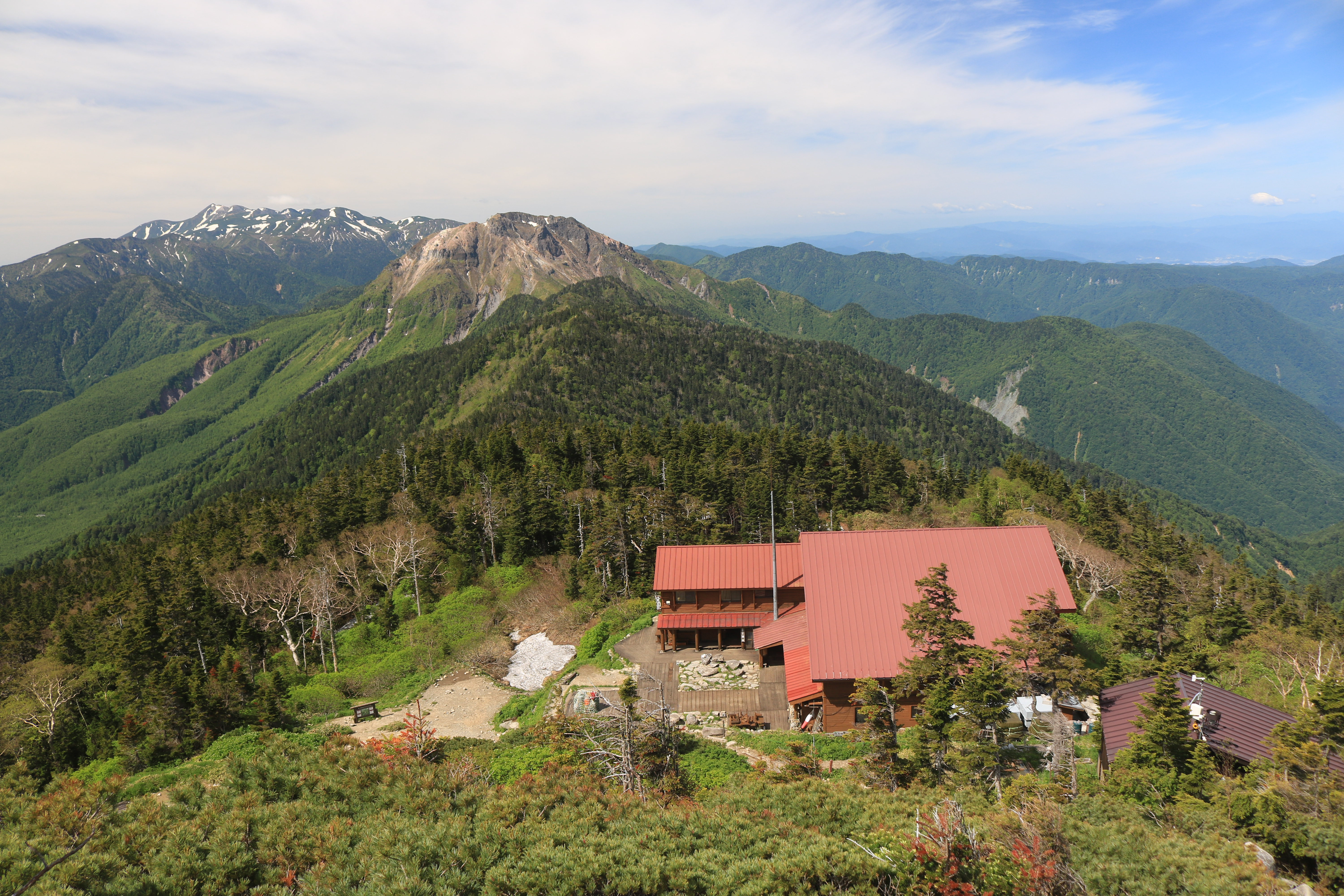 Mount Yake, Mount Norikura and Nishiho Sanso in Mount Nishihotaka, Hida Mountains, Takayama, Gifu Prefecture, Japan.